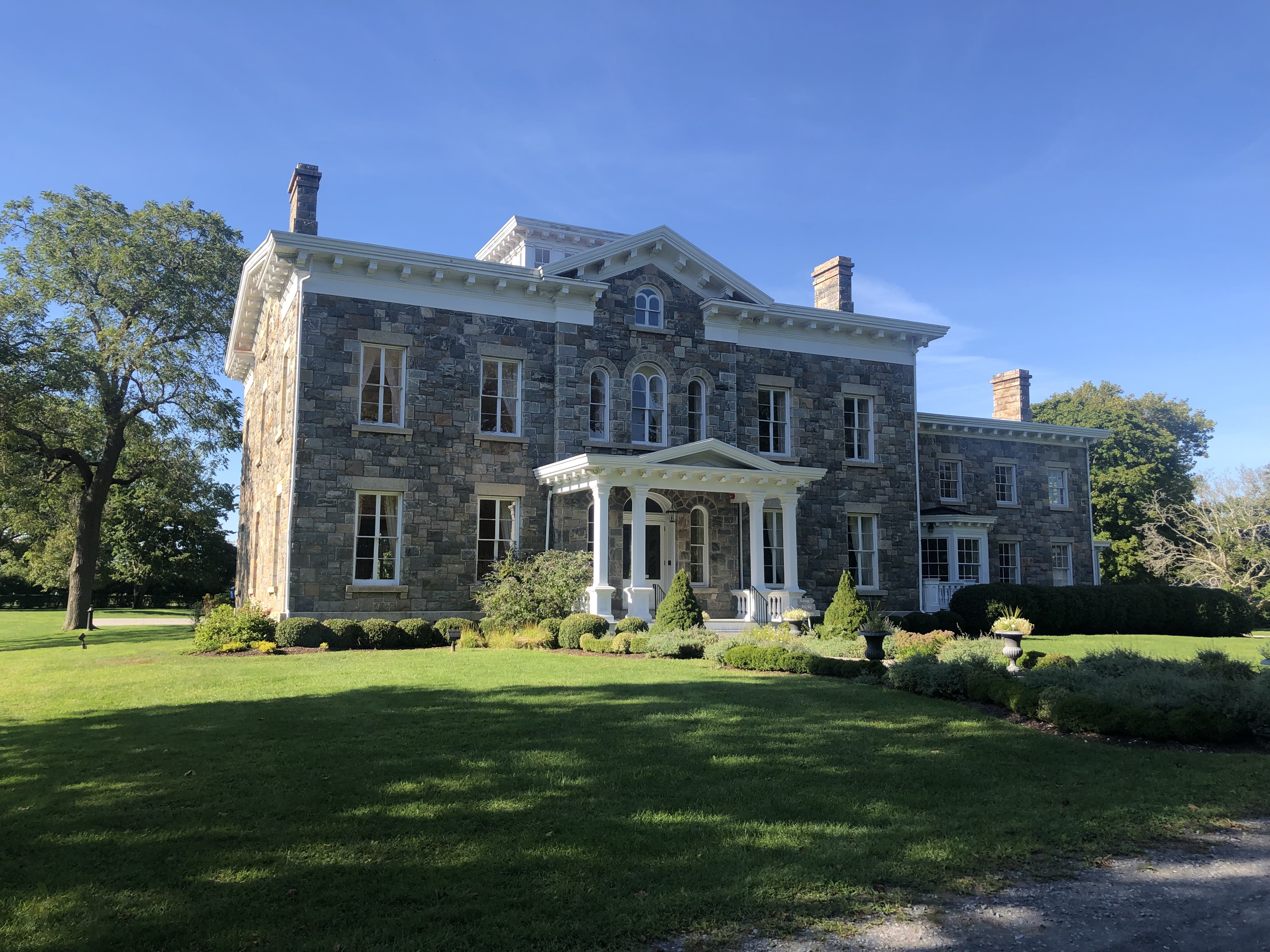 Front of Becknock Hall